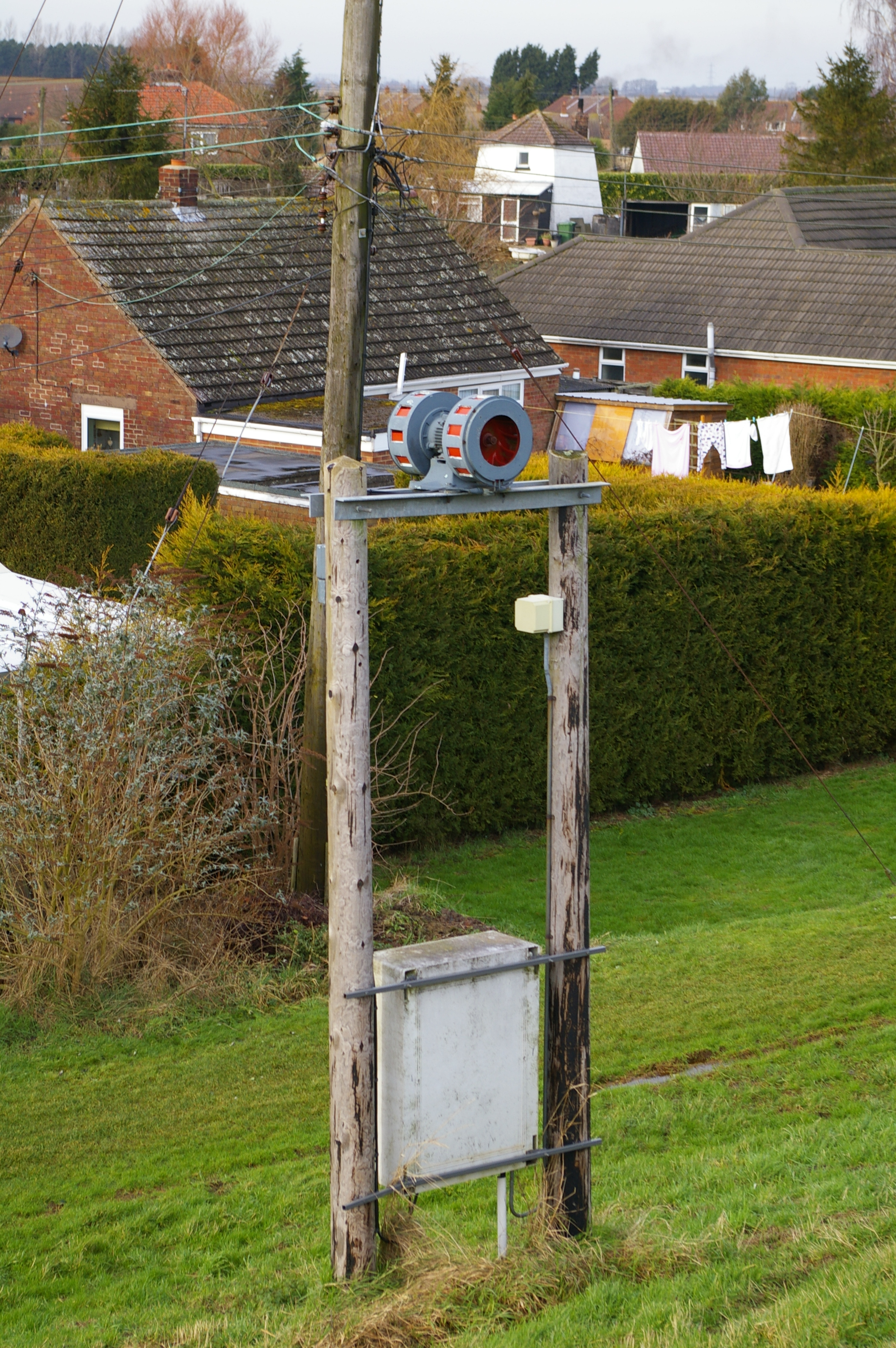 Flood warning siren Sirens like this one in Magdalen are quite common around the River Great Ouse. I think they're used for flood warnings.